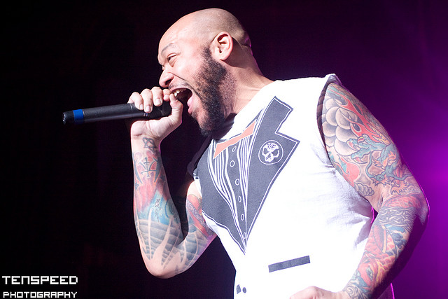 Howard Jones of Killswitch Engage vocalist